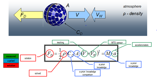 In the diagram below, items in green can be found using on board instruments. Blue are prior knowledge, and red are variables that can be solved for. This is the equation DANDE uses to determine the drag in the region below 500 km